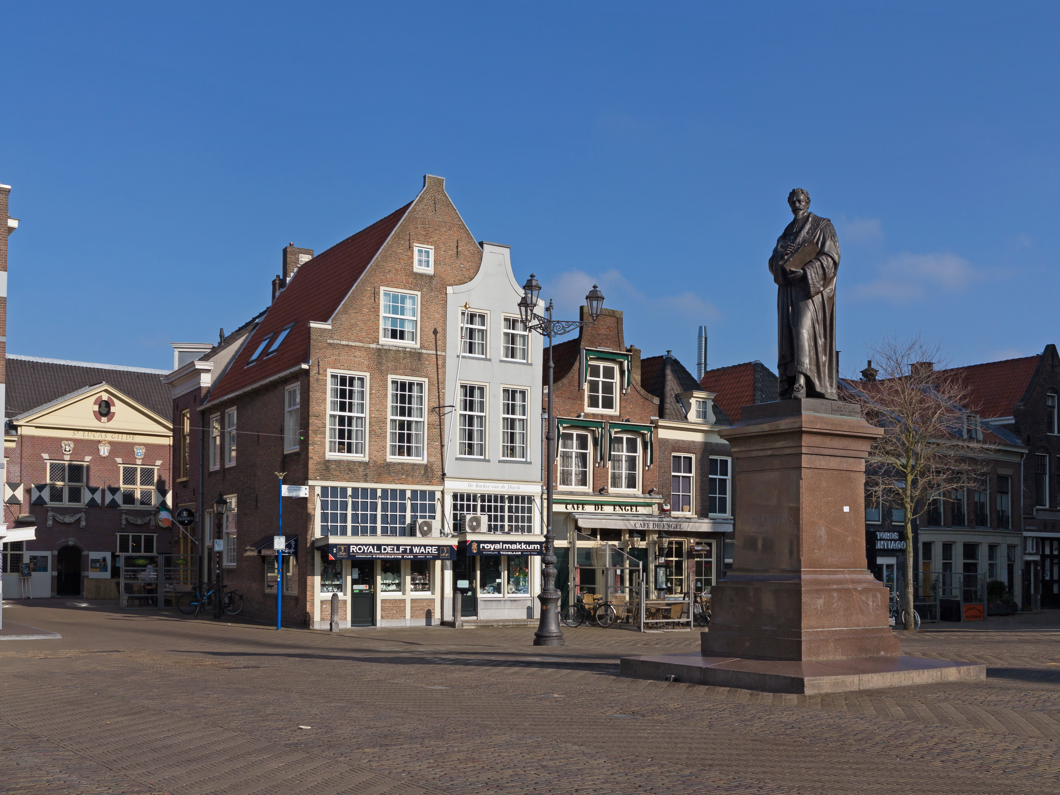 Delft statue (Hugo de Groot) at de Markt